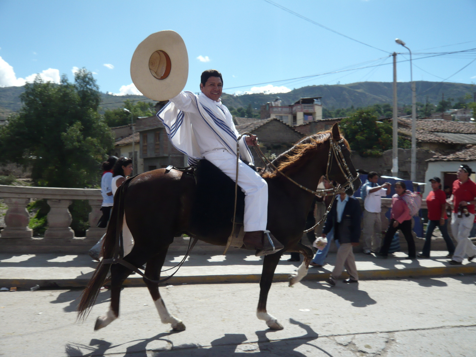 Photos of Ayacucho taken by E. Zambrano